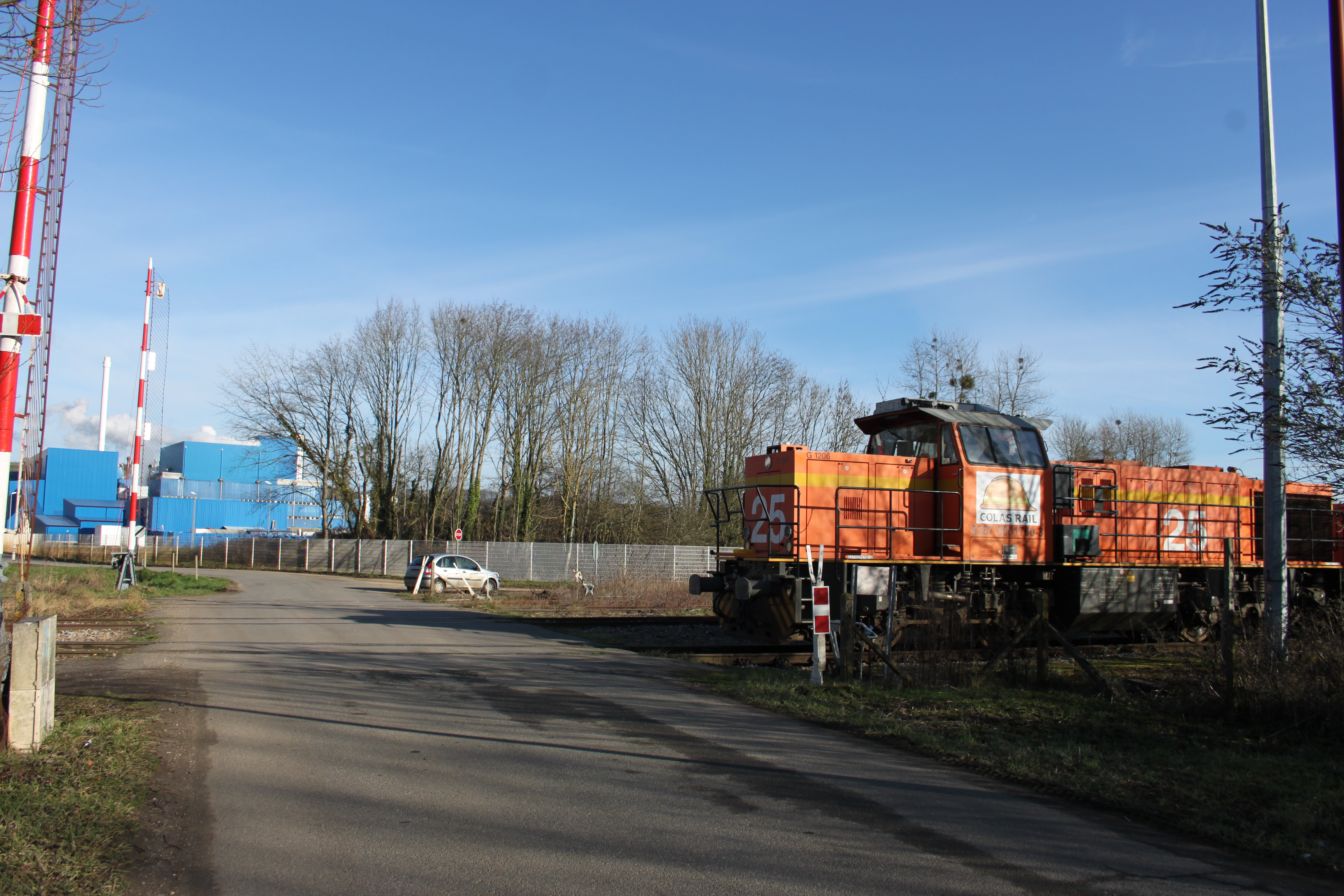 Rouxmesnil-Bouteilles(76), Passage à Niveau manuel PN108.4 (à ne pas confondre avec le PN108), Vossloh G 1206 COLAS RAIL n°25 (pour manœuvrer les rames de wagons portes bennes .